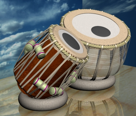 The tabla (Hindi: तबला, Telugu: తబలా, Urdu: تبلہ tablā) is a popular Indian percussion instrument used in the classical, popular and religious music of the Indian subcontinent and in Hindustani classical music. The instrument consists of a pair of hand drums of contrasting sizes and timbres. The term tabla is derived from an Arabic word, tabl, which simply means "drum".